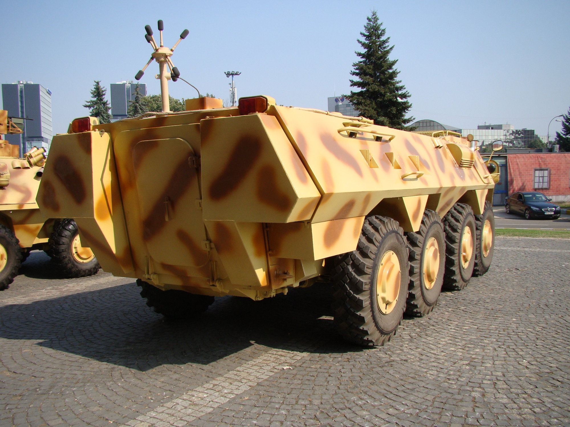 SAUR 2 APC on display at Expomil 2011.